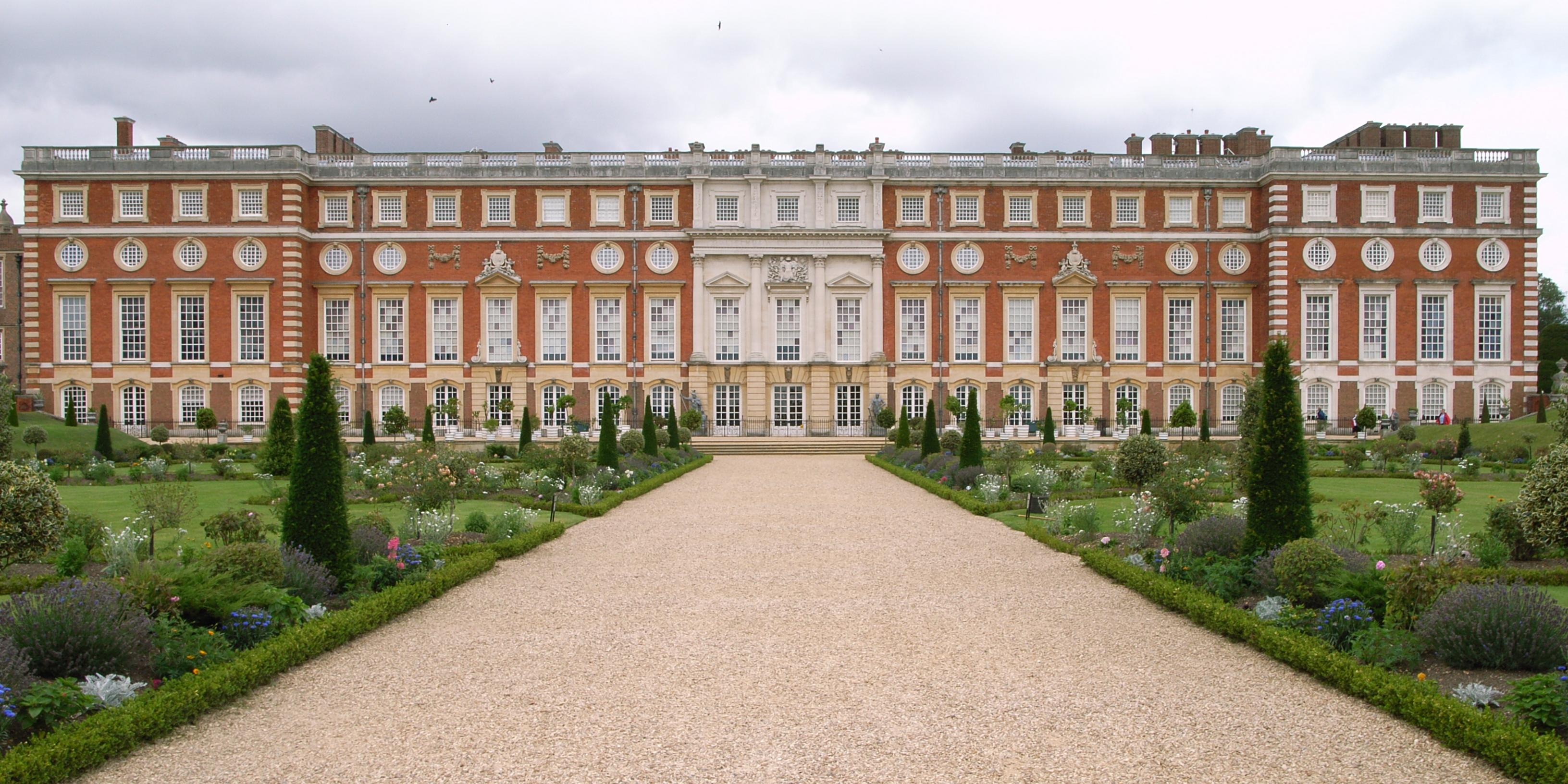 Hampton Court (1689-1702) by Christopher Wren. South front and flower gardens.